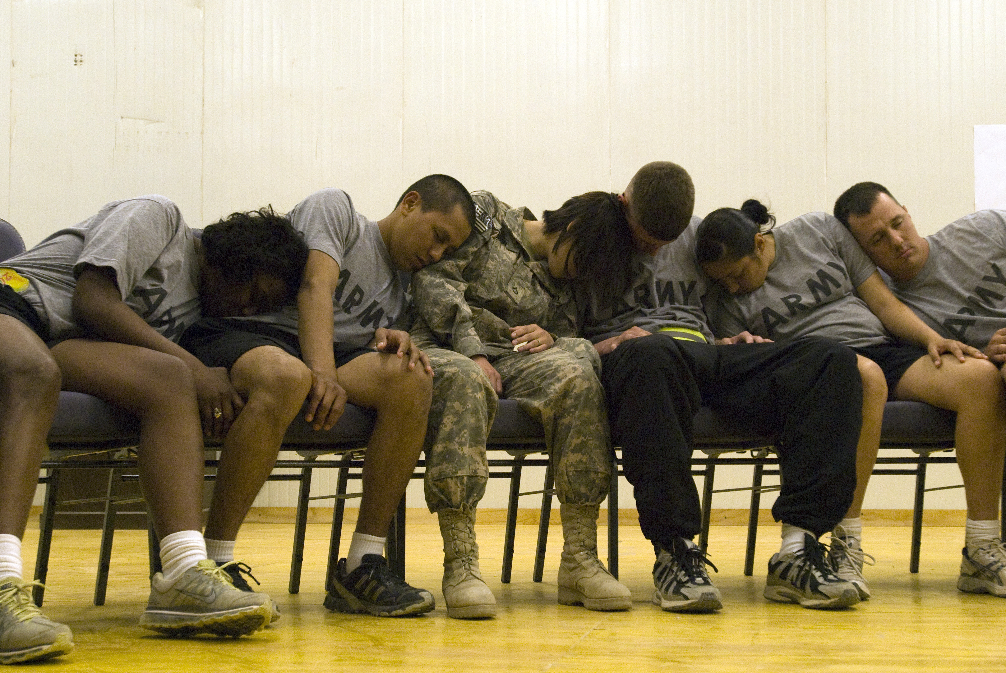 Participants of Chuck Milligan's comedic hypnosis show start to lean on each other or in the next person's lap as they fall deeper and deeper into a state of concentration and relaxation giving themselves over to the process of hypnotism at the north Morale, Welfare and Recreations center on Contingency Operating Base Speicher, April 8. This, in turn, would have the participants acting like little monkeys that live in the zoo according to Milligan, making the audience fall out of their seats laughing.